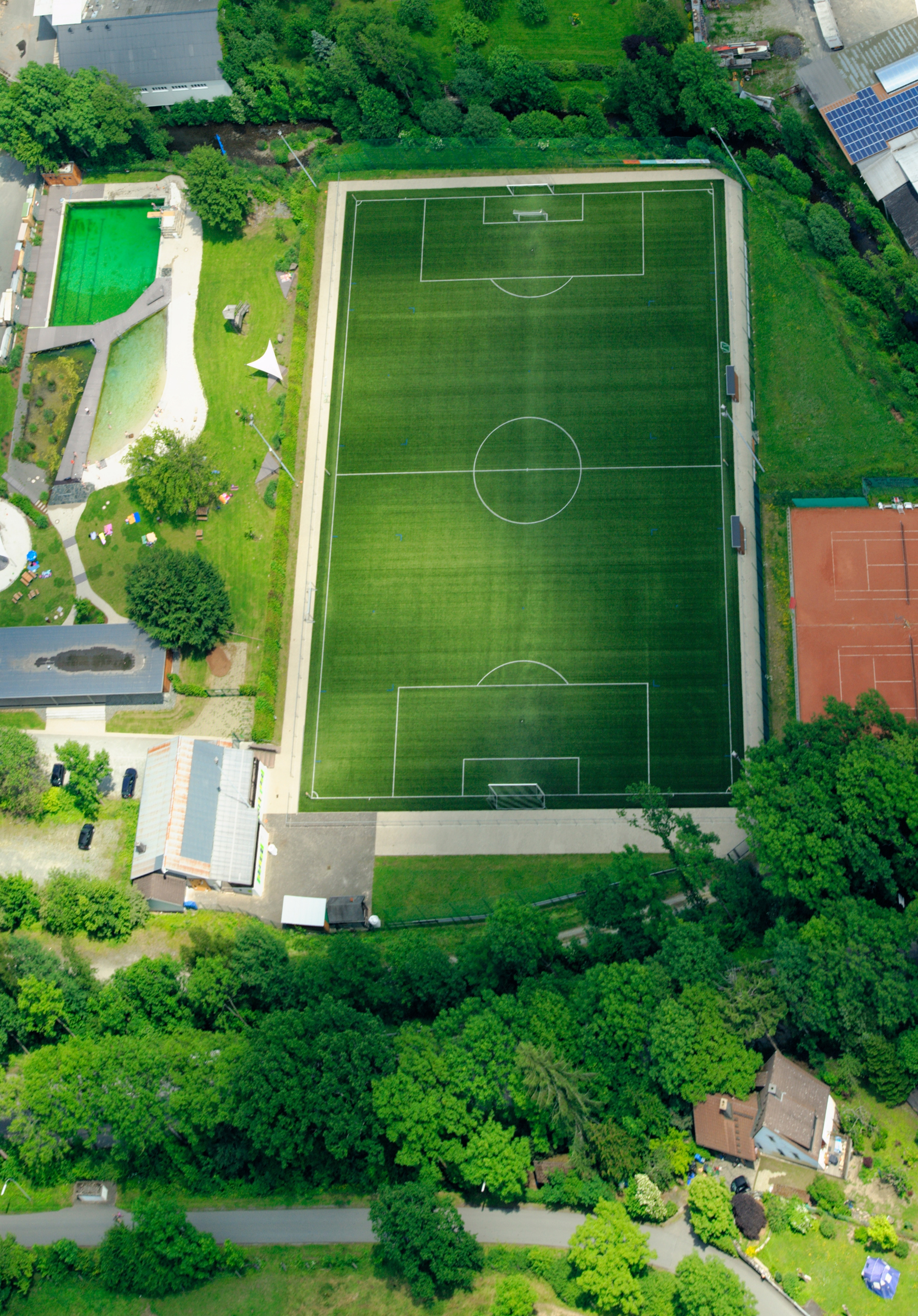 Fotoflug Sauerland-Ost: Hallenberg, Sportplatz. The making of this document was supported by the Community-Budget of Wikimedia Germany.